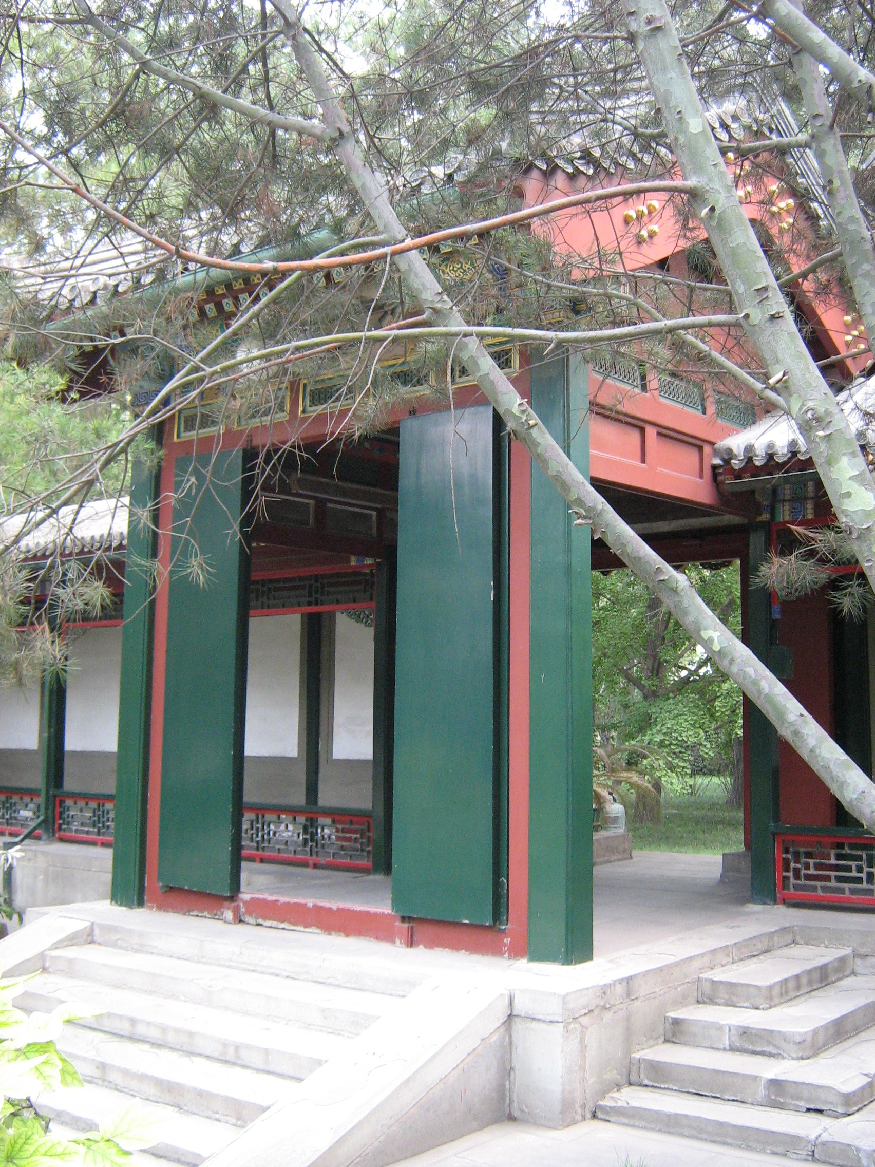 Guo Moruo Memorial